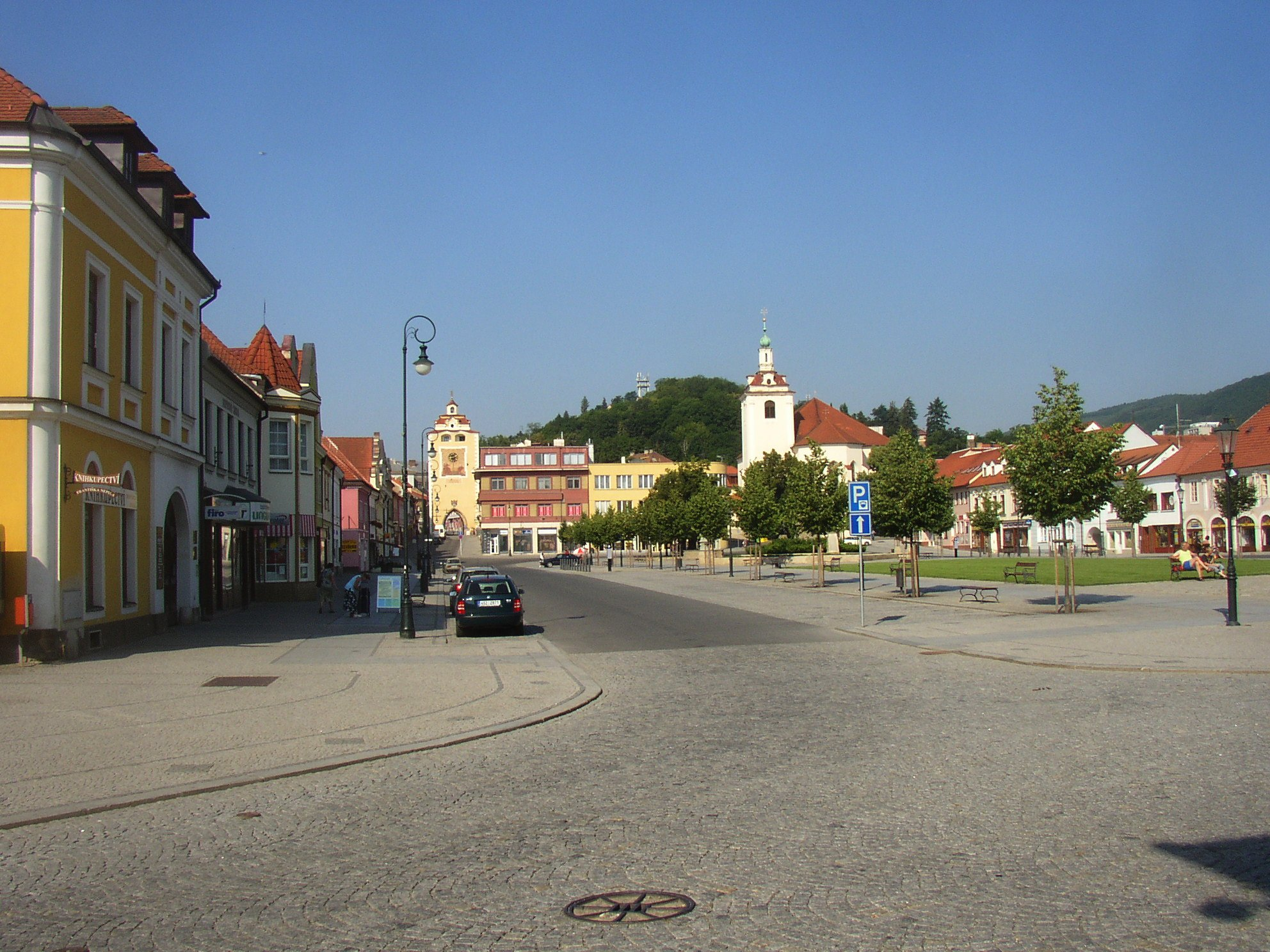 John Hus Square in Beroun, Czech Republic as seen from its southeast corner. The Pilsen Gate and St James church in the background.